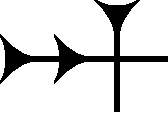 Cuneiform sign AN, DINGIR ("heavens, god"), Akkadian ìl (ilu), determinative before names of deities.